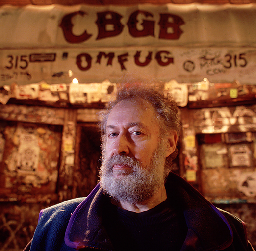 Hilly Kristal, owner of CBGB's photographed in front of his club in New York City by Charlie Samuels. Portrait.